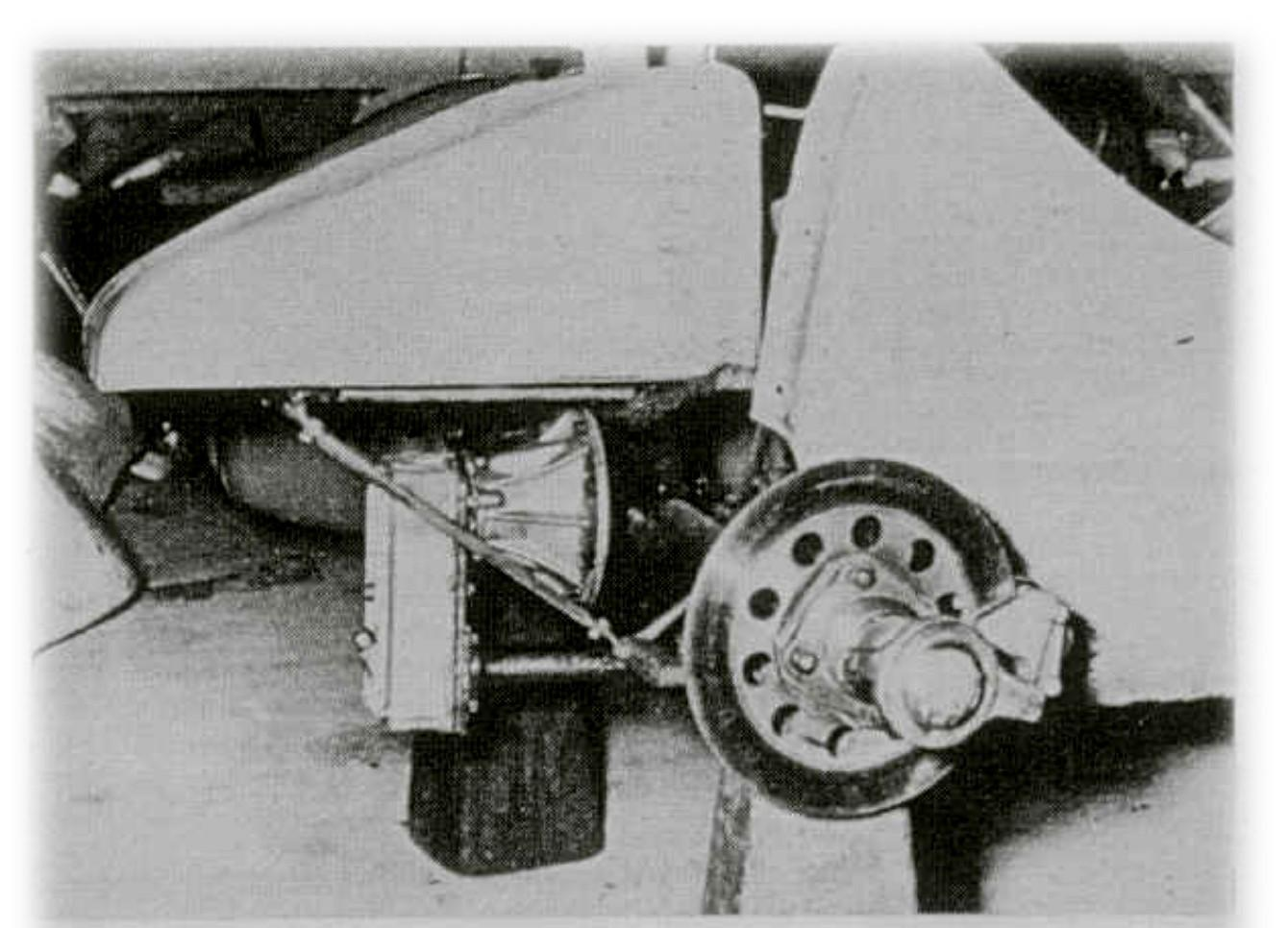 Bandini formula 3 picture by Bandini book